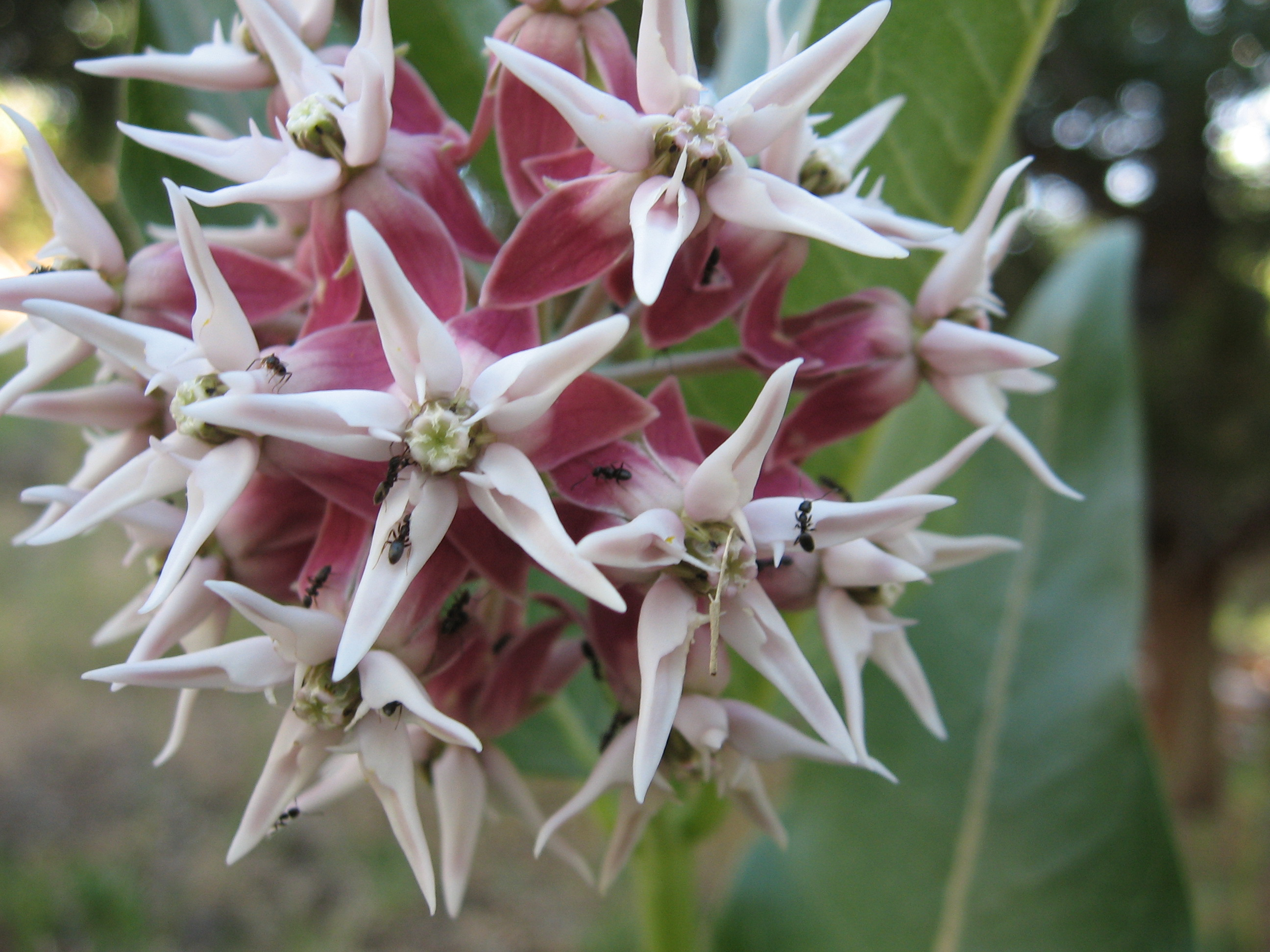 A milkweed.